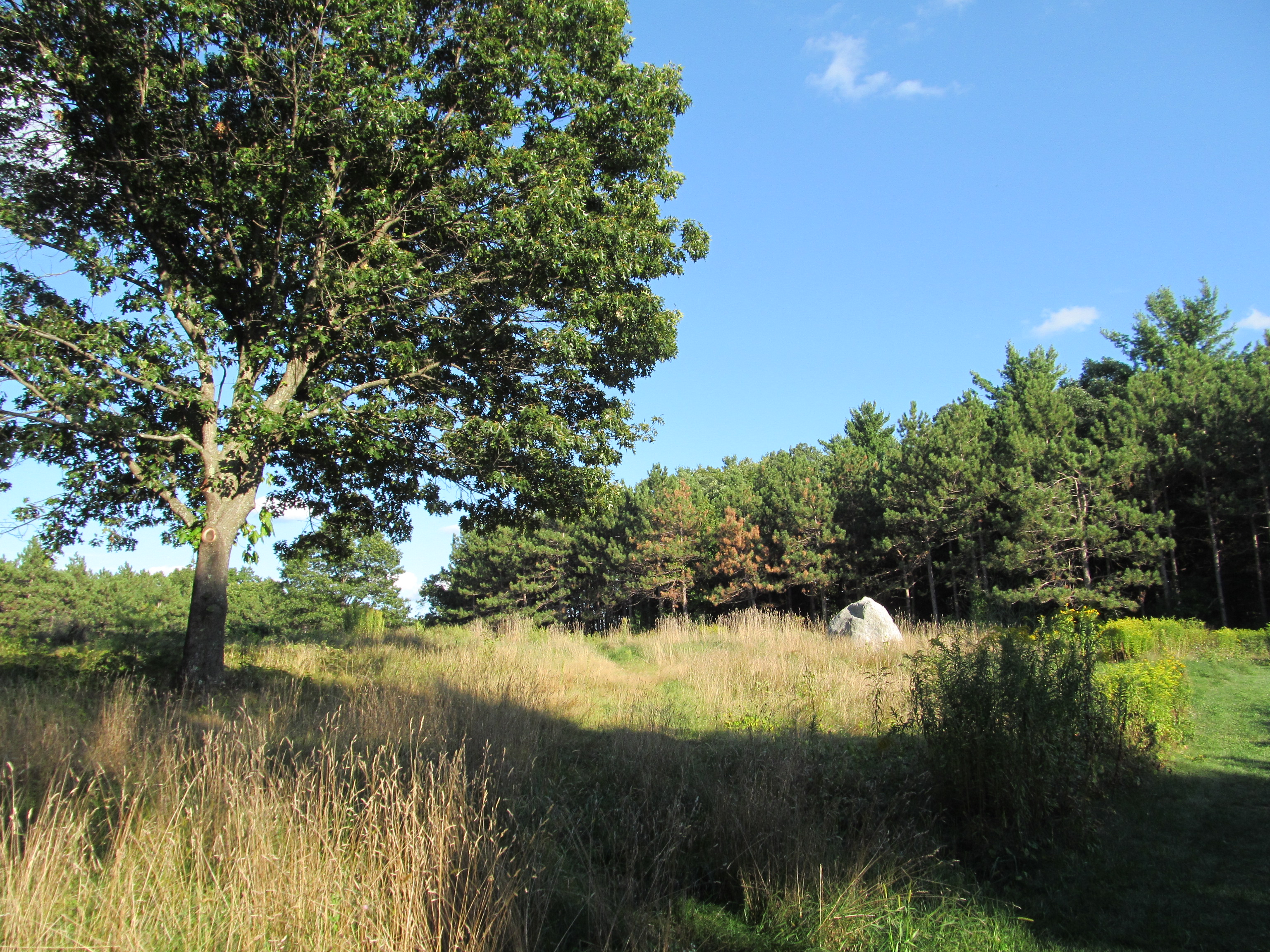 Upper Meadow, Doyle Community Park, Leominster Massachusetts